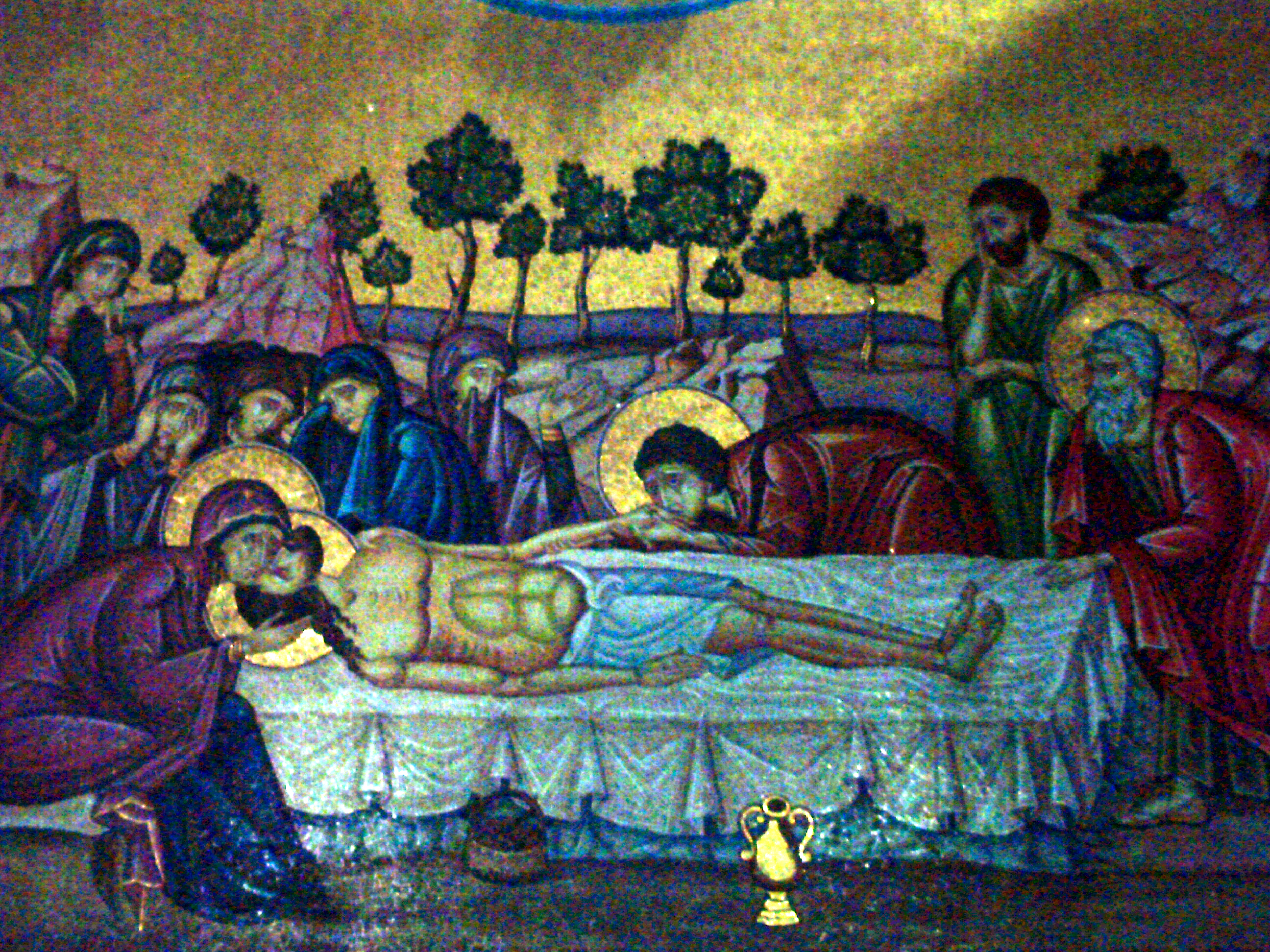 This is a photograph of the central part of a mosaic in the Church of the Holy Sepulchre in Jerusalem, on the outer wall of the Catholicon behind the Stone of Unction. The mosaic depicts Jesus being taken down from the cross, and his body being anointed prior to placing in the tomb.